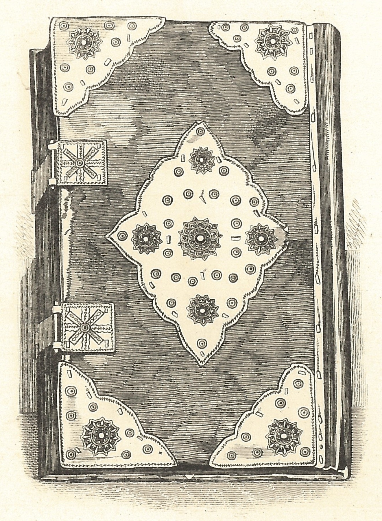 Engraving of Great Domesday Book in its (probably) Tudor binding.